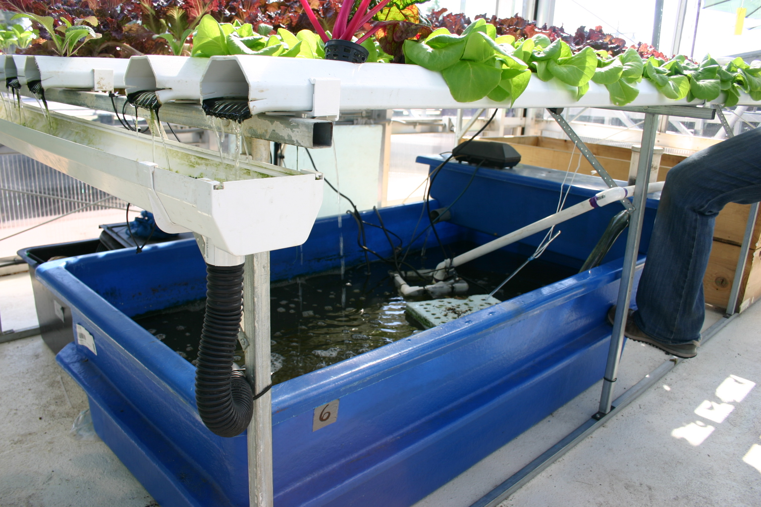 Aquaponics: there are catfish in this tank, feeding the plants above, which feed the worms below, which feed the catfish.